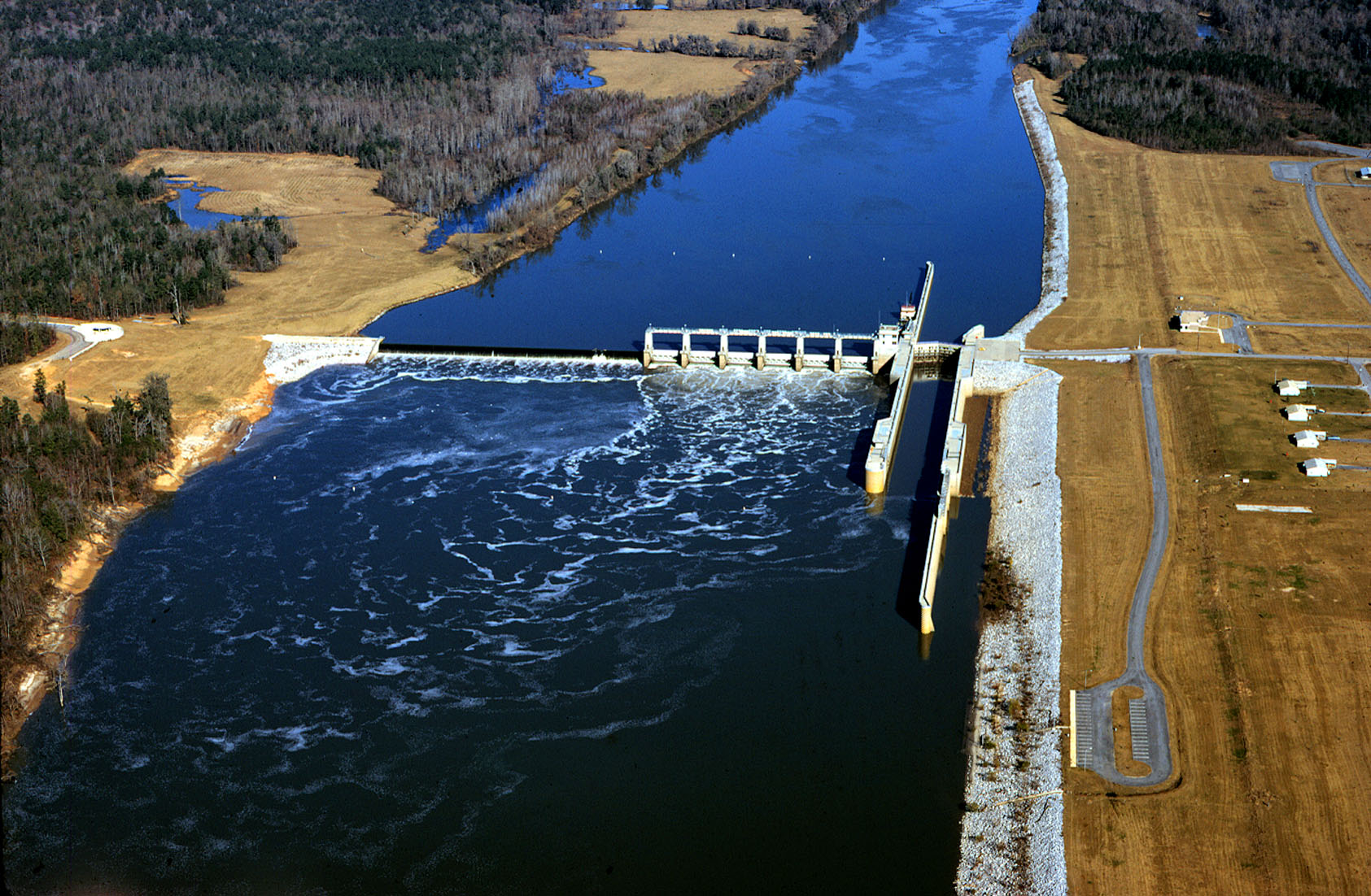 Aerial view of Claiborne Lock and Dam on the Alabama River in Monroe County, Alabama, USA. The dam is located approximately 5 miles (8 km) upriver from Claiborne, Alabama. The U.S. Army Corps of Engineers maintains the lock and dam for barge navigation on the river. View is upriver to the north. Coordinates: 31°36′53.92″N 87°33′2.8″W / 31.6149778°N 87.550778°W